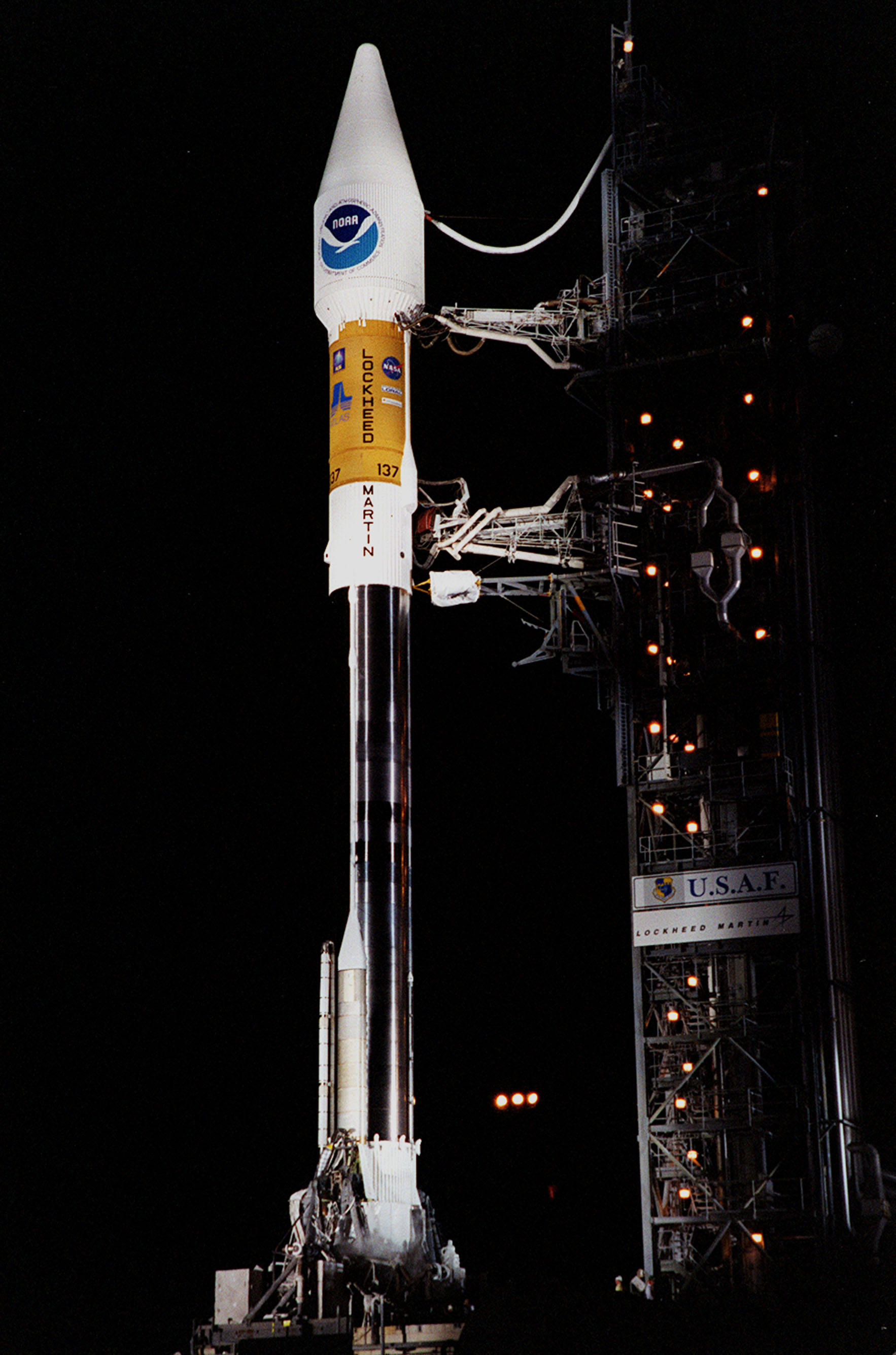 Atlas IIA Centaur rocket with GOES-L weather satellite, Cape Canaveral (May 3, 2000) - The Atlas II/Centaur rocket carrying the NASA/NOAA weather satellite GOES-L is revealed after the tower was rolled back before launch. The primary objective of the GOES-L is to provide a full capability satellite in an on-orbit storage condition, in order to assure NOAA continuity in services from a two-satellite constellation. Launch services are being provided by the 45th Space Wing. Liftoff is targeted to occur at the opening of a launch window extending from 2:27 - 5:53 a.m. EDT, a duration of three hours and 27 minutes. Launch will occur from Pad A at Complex 36 on Cape Canaveral Air Force Station.